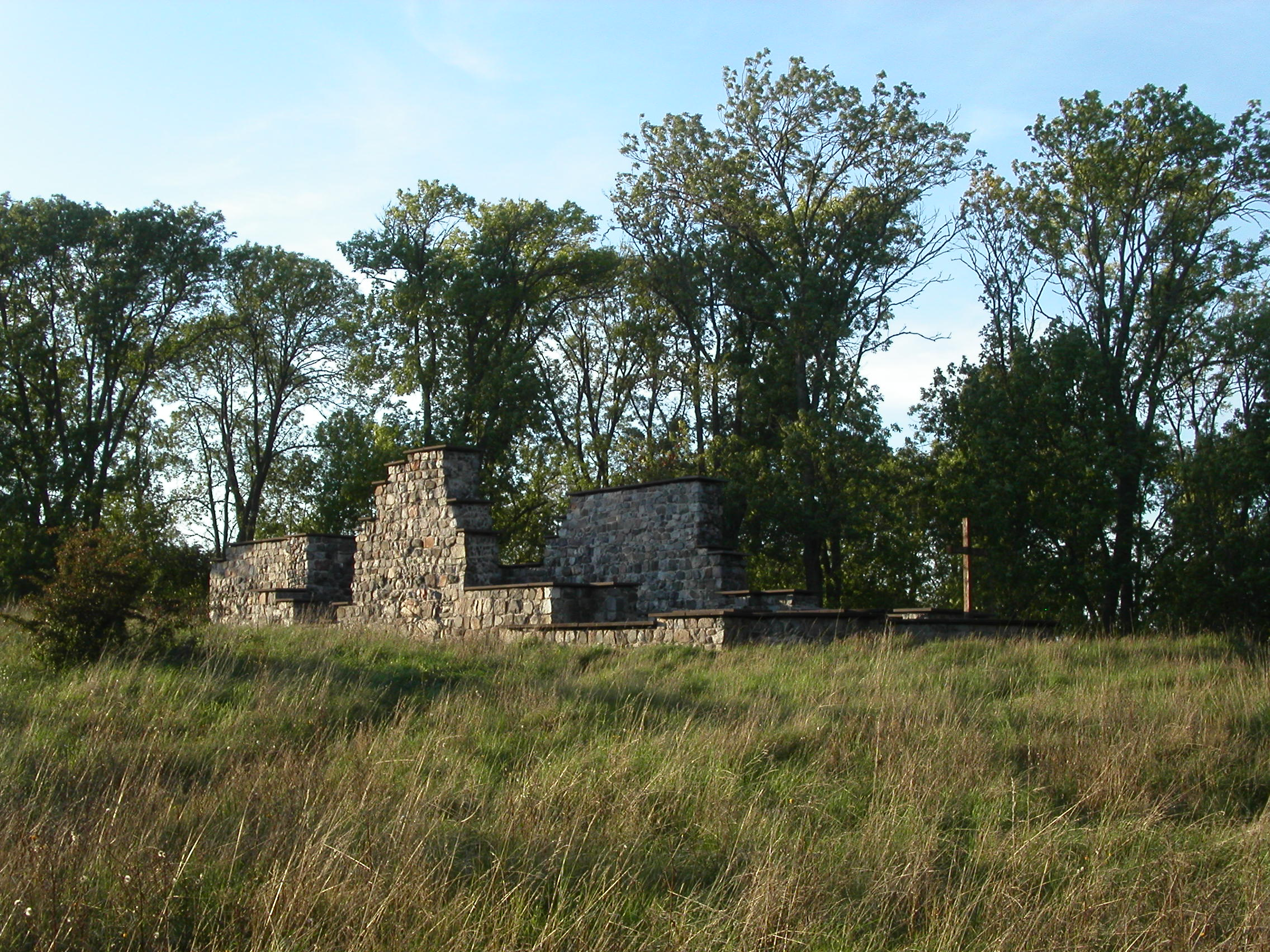 Flasta church ruin in Skokloster Parish, Håbo Hundred, Håbo Municipality, Uppsala County, Uppland, Sweden.